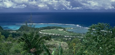 War in the Pacific National Historical Park, Asan, Guam.